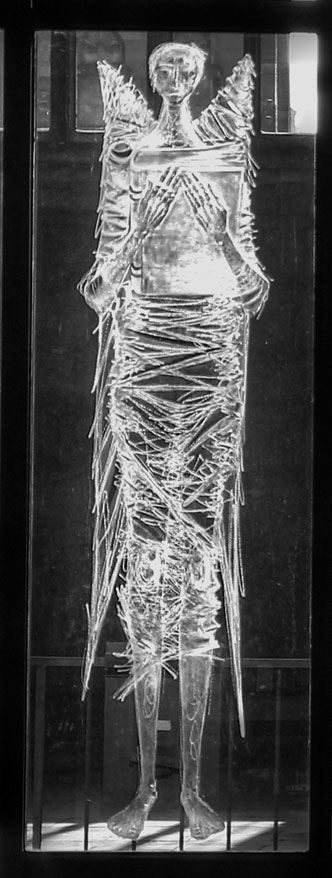 The Angel with the Eternal Gospel, part of Coventry Cathedral's Great West Window, the Screen of Saints and Angels; this etched pane was smashed during a burglary in January 2020.